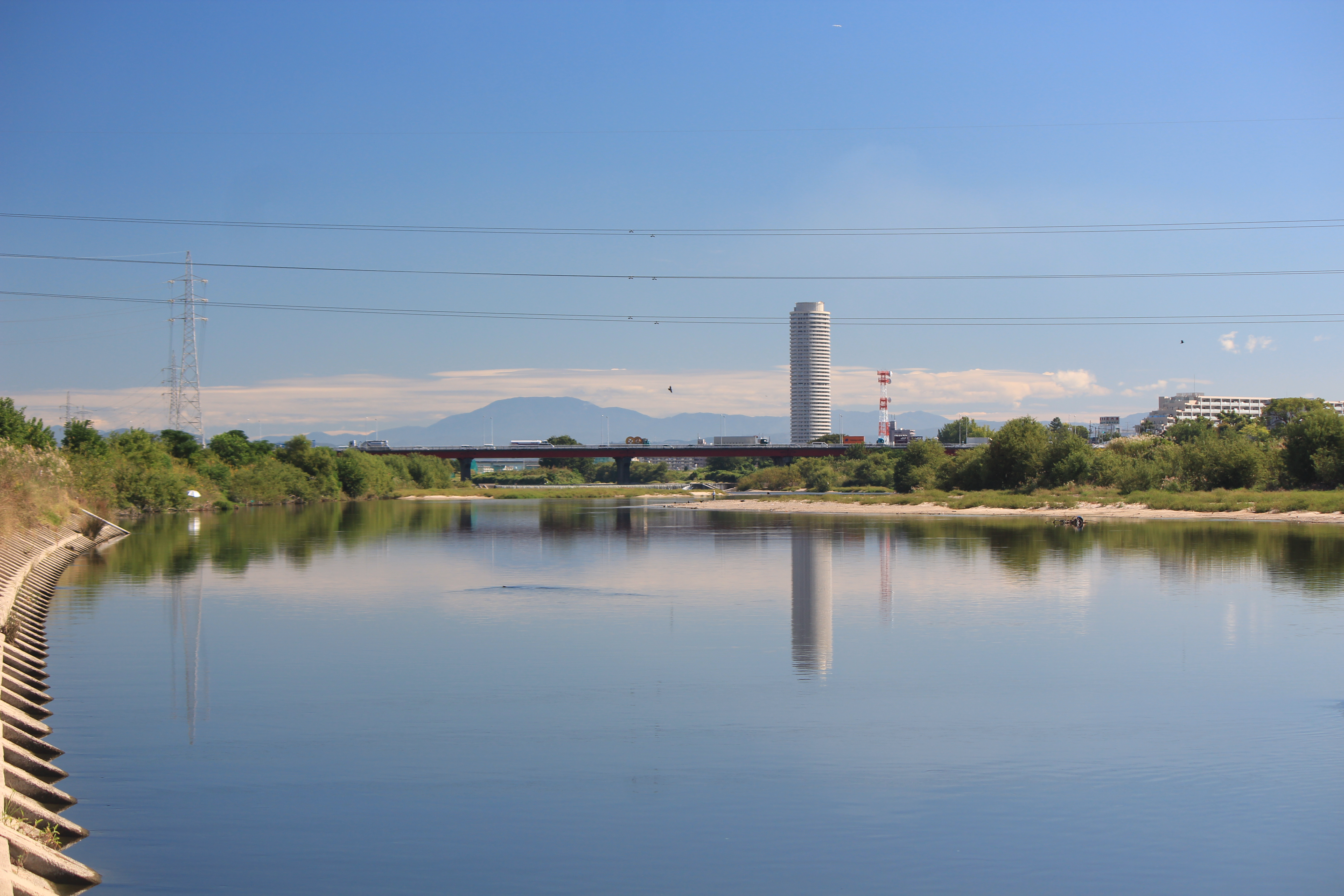 The Scene Johoku seen from the Shōnai River in Kita-ku, Nagoya City, Japan